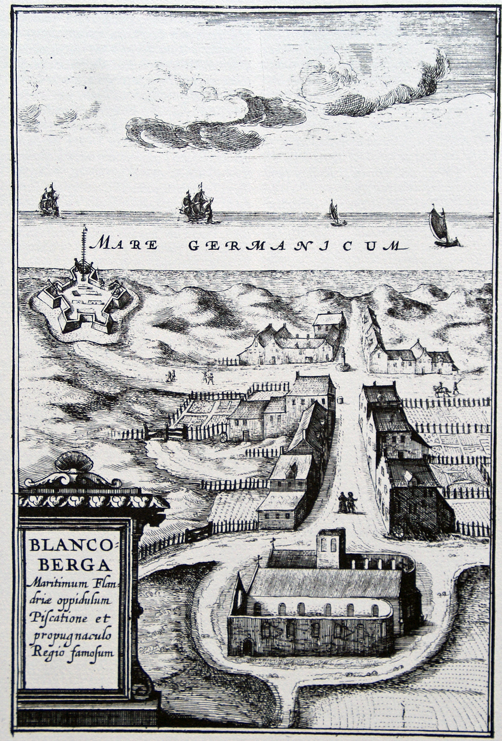 Blankenberge (Belgium): Page 306 of Antoon Sanders Flandria Illustrata:Blankenberge